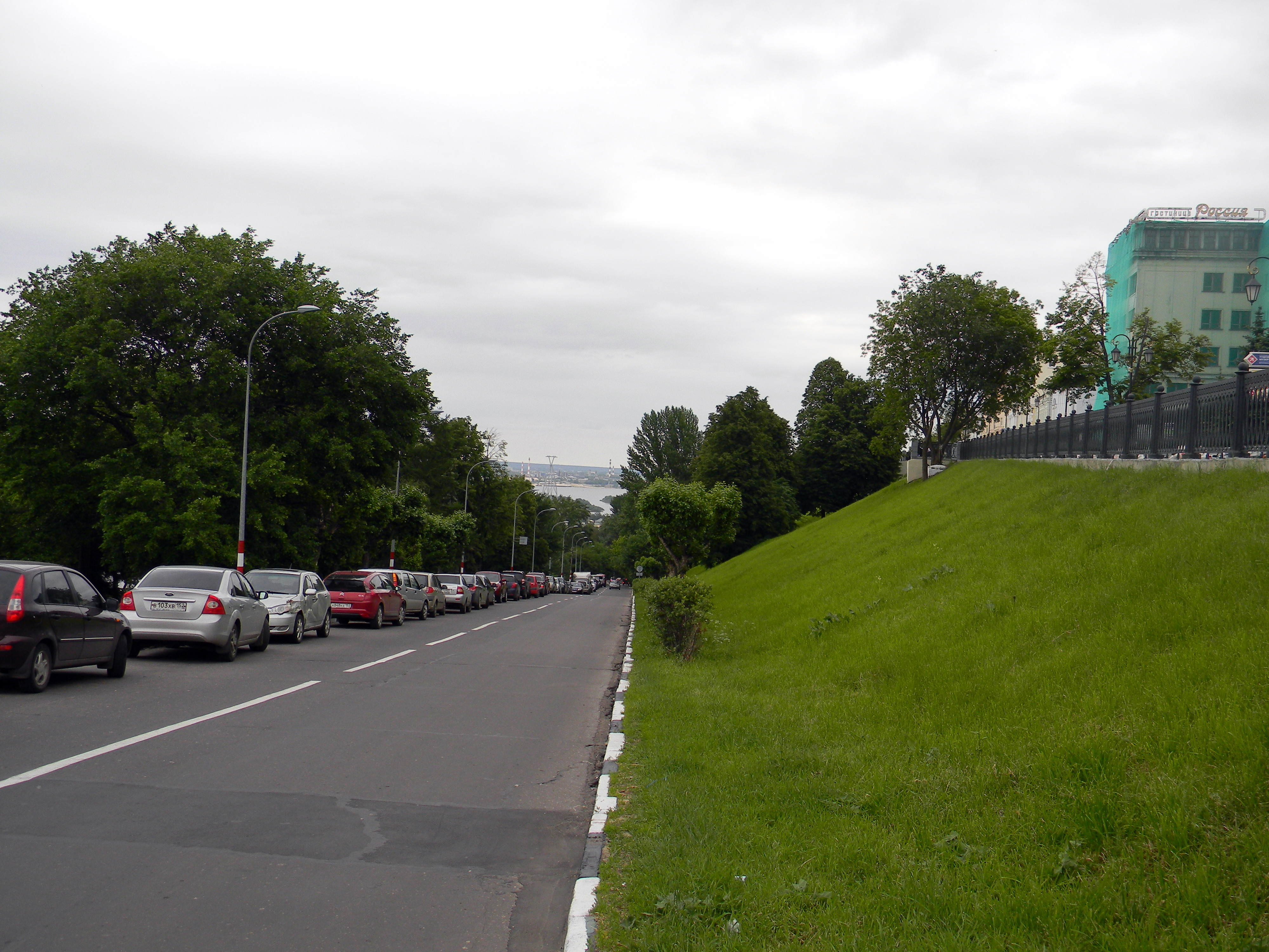 Georgiy rally in Nizhny Novgorod